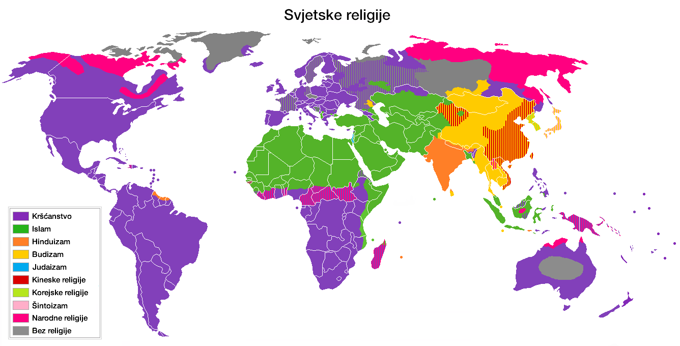 Translated version of File:Religion distribution.png.